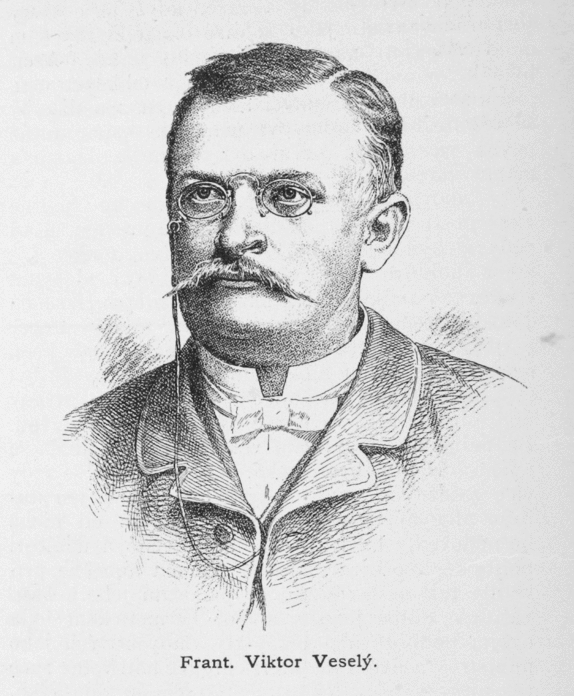 Portrait of František Viktor Veselý (1853-1907), Czech farmer and politician